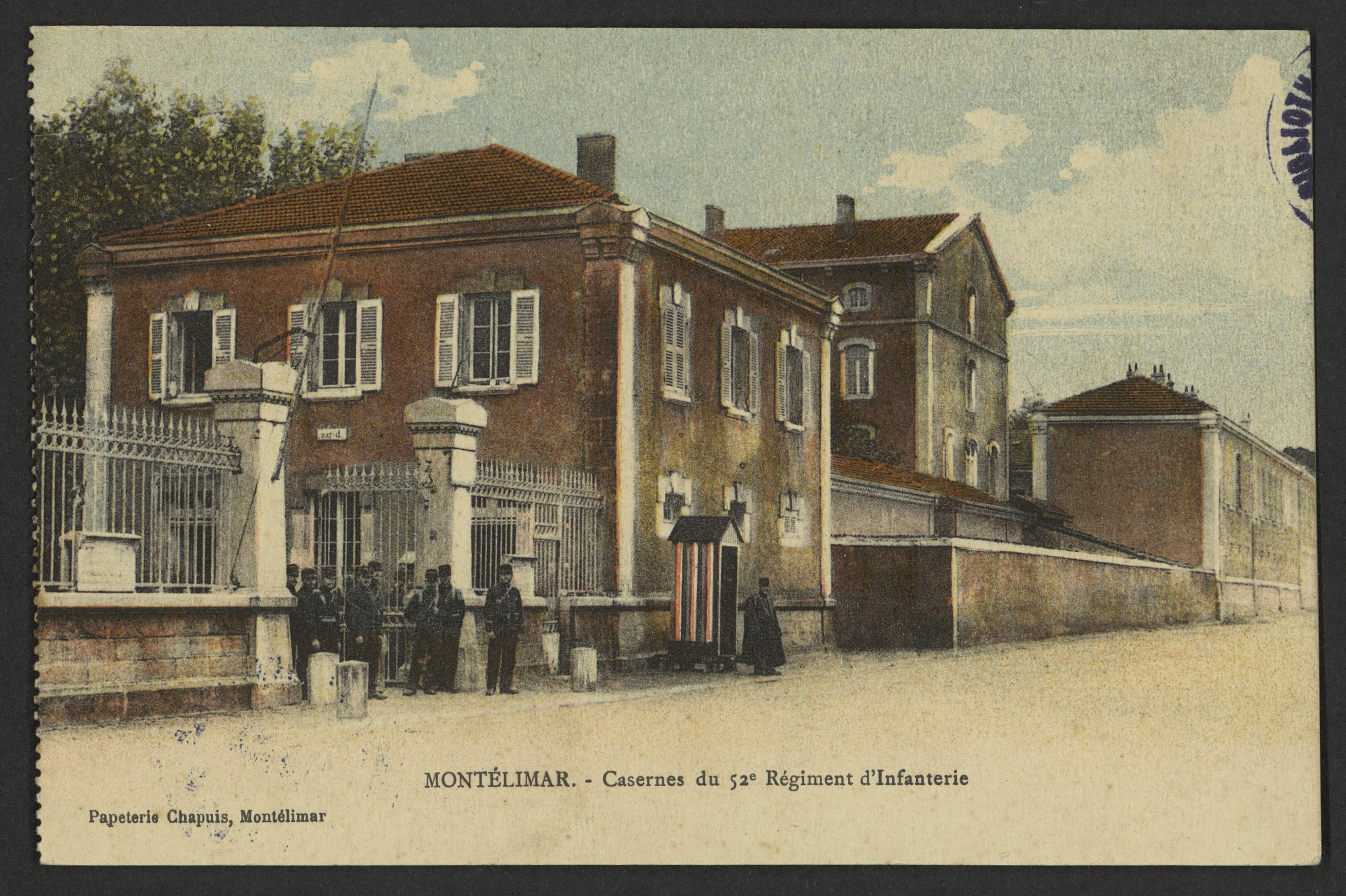 Casernes Montélimar